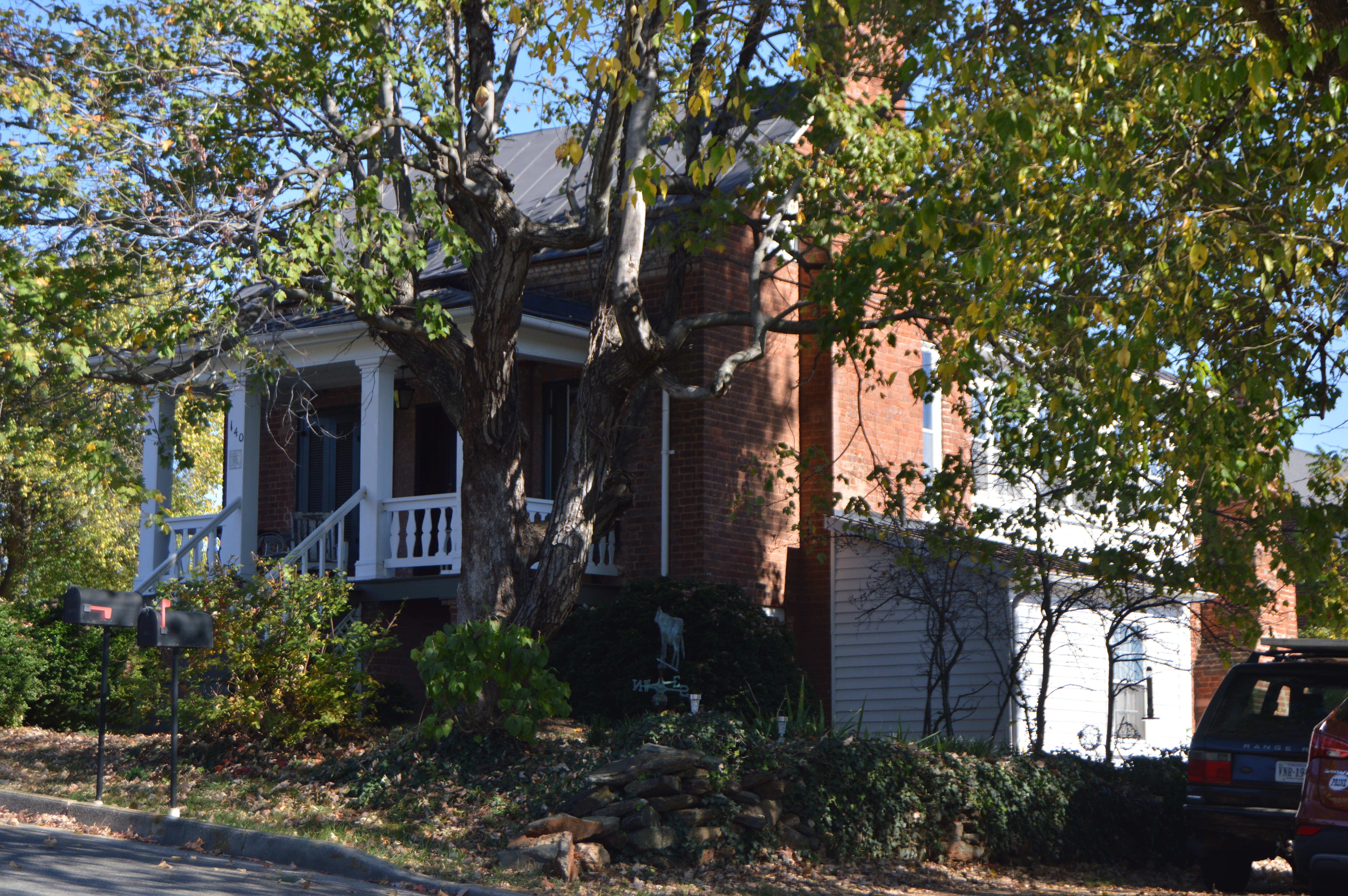 Front and southern side of the Woods-Meade House, located at 118 Maple Street in Rocky Mount, Virginia, United States. Built in 1830, it is listed on the National Register of Historic Places.